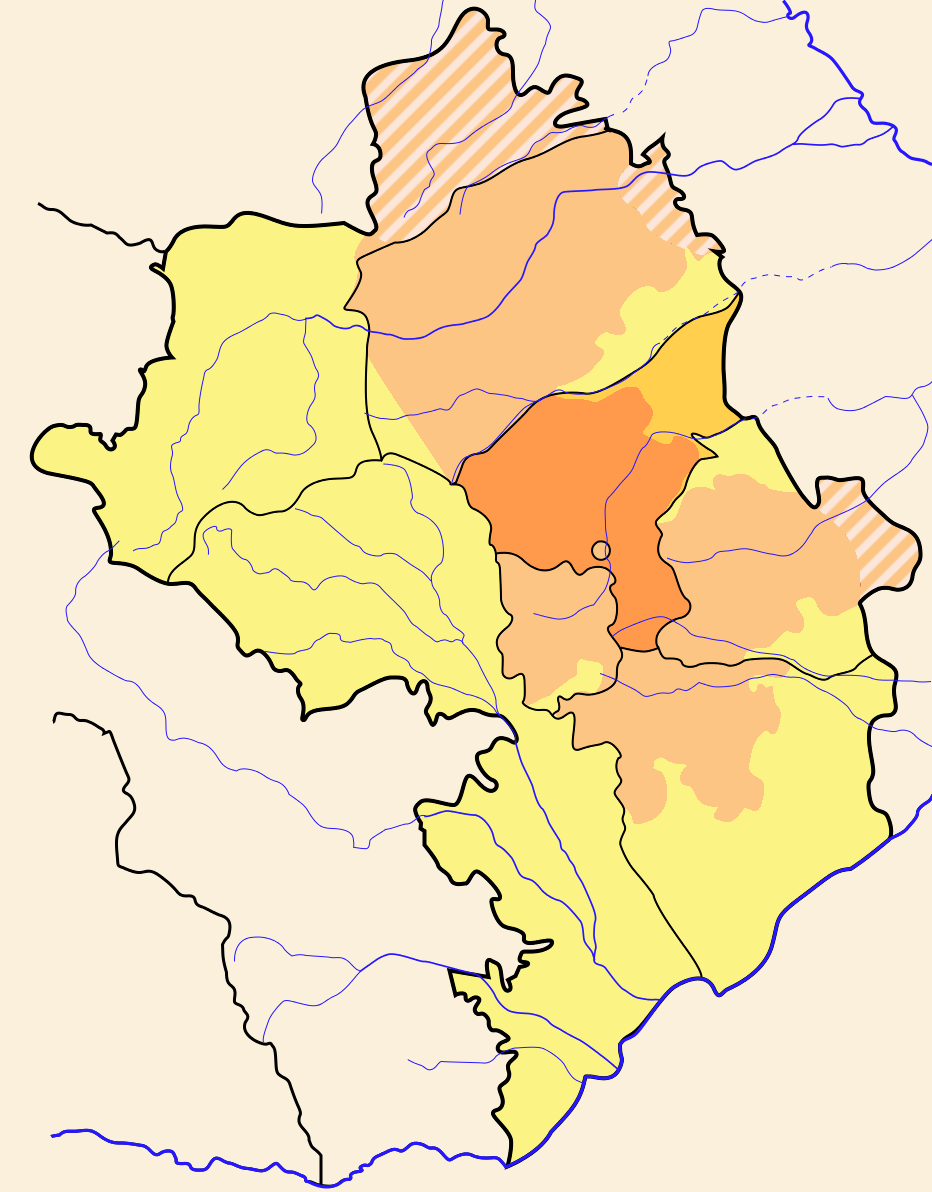 Rayon of Askeran in NKR